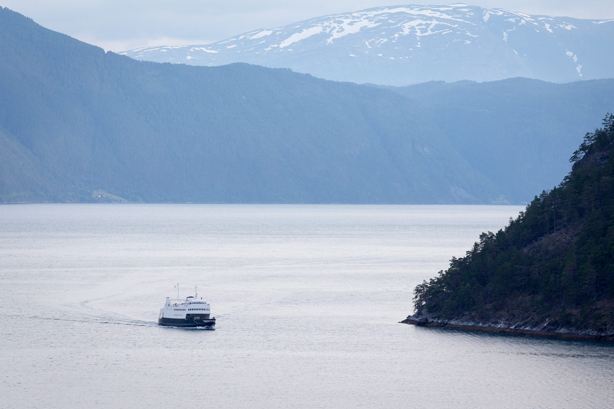 Vintage fery Hardingen (built 1966) arrives Kaupanger in route with tourists from Gudvangen.